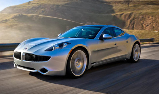 Trimmed version of Fisker Karma on the highway